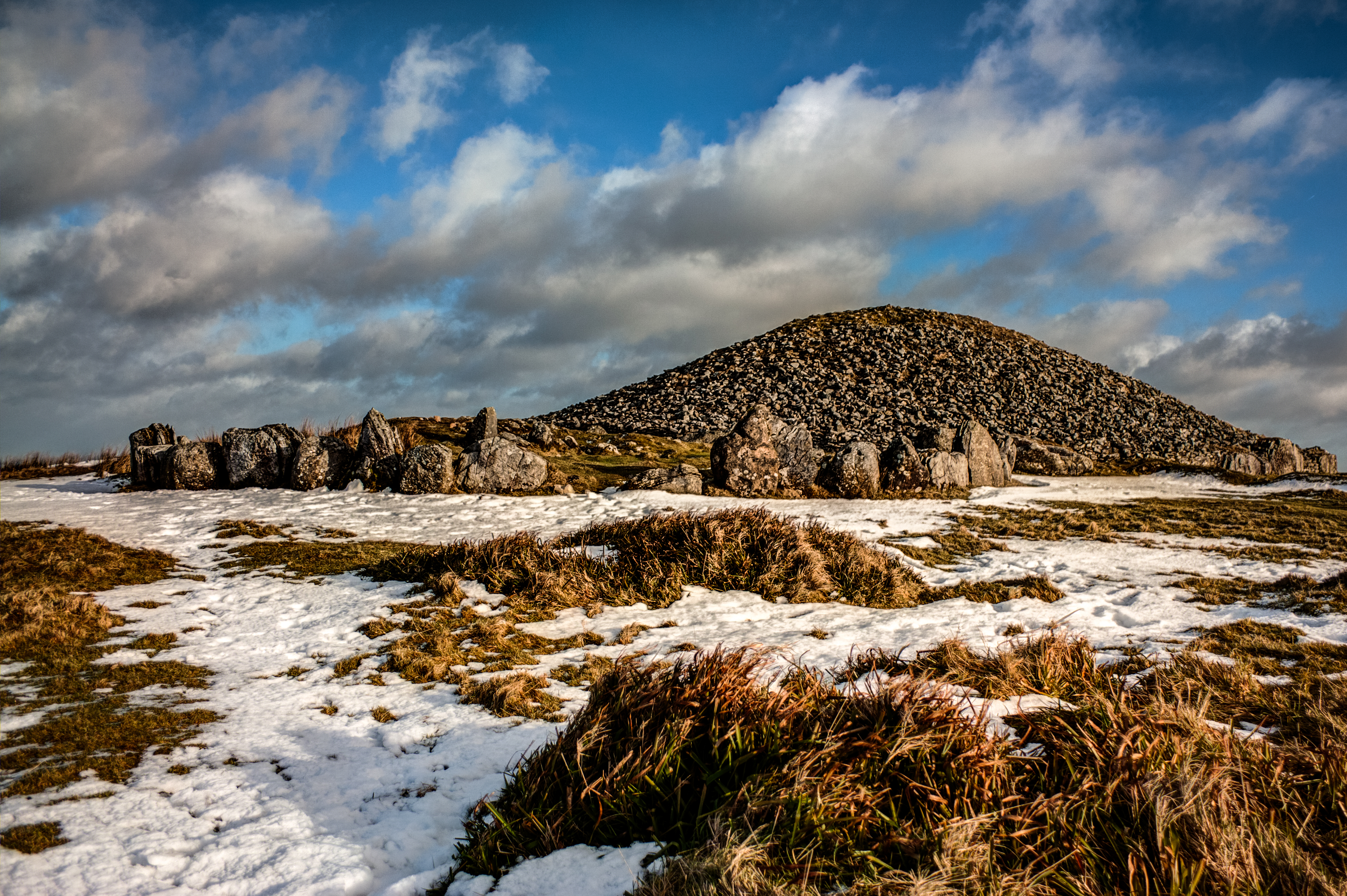 Loughcrew Megolithic Tomb complex